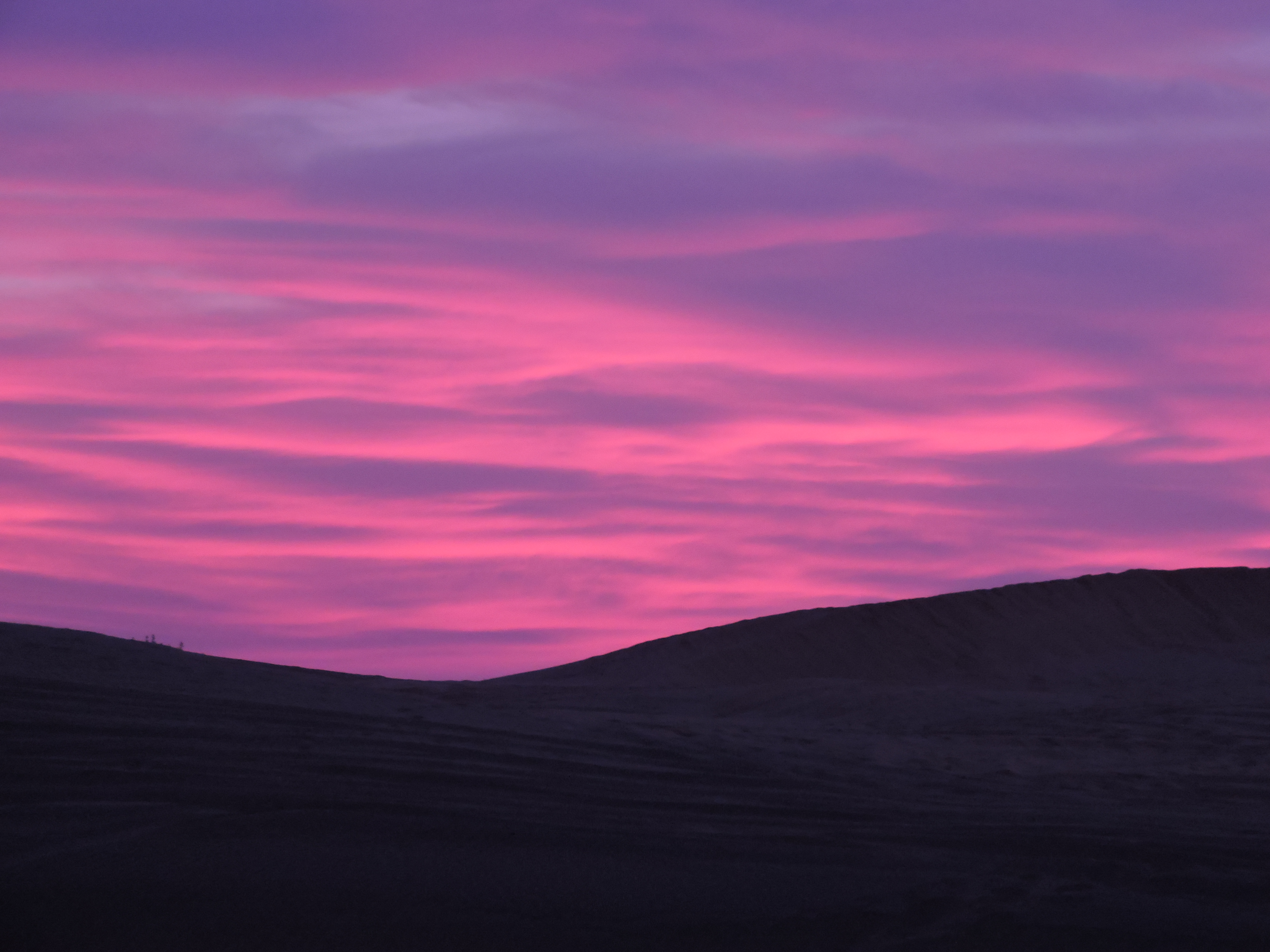 This image was captured early in the morning in February in the middle of the Thar Desert near Jaisalmer